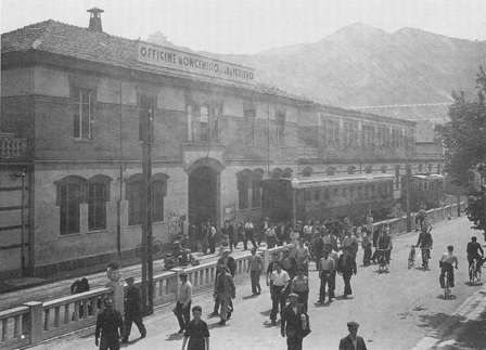 Officine Moncenisio factory, workers